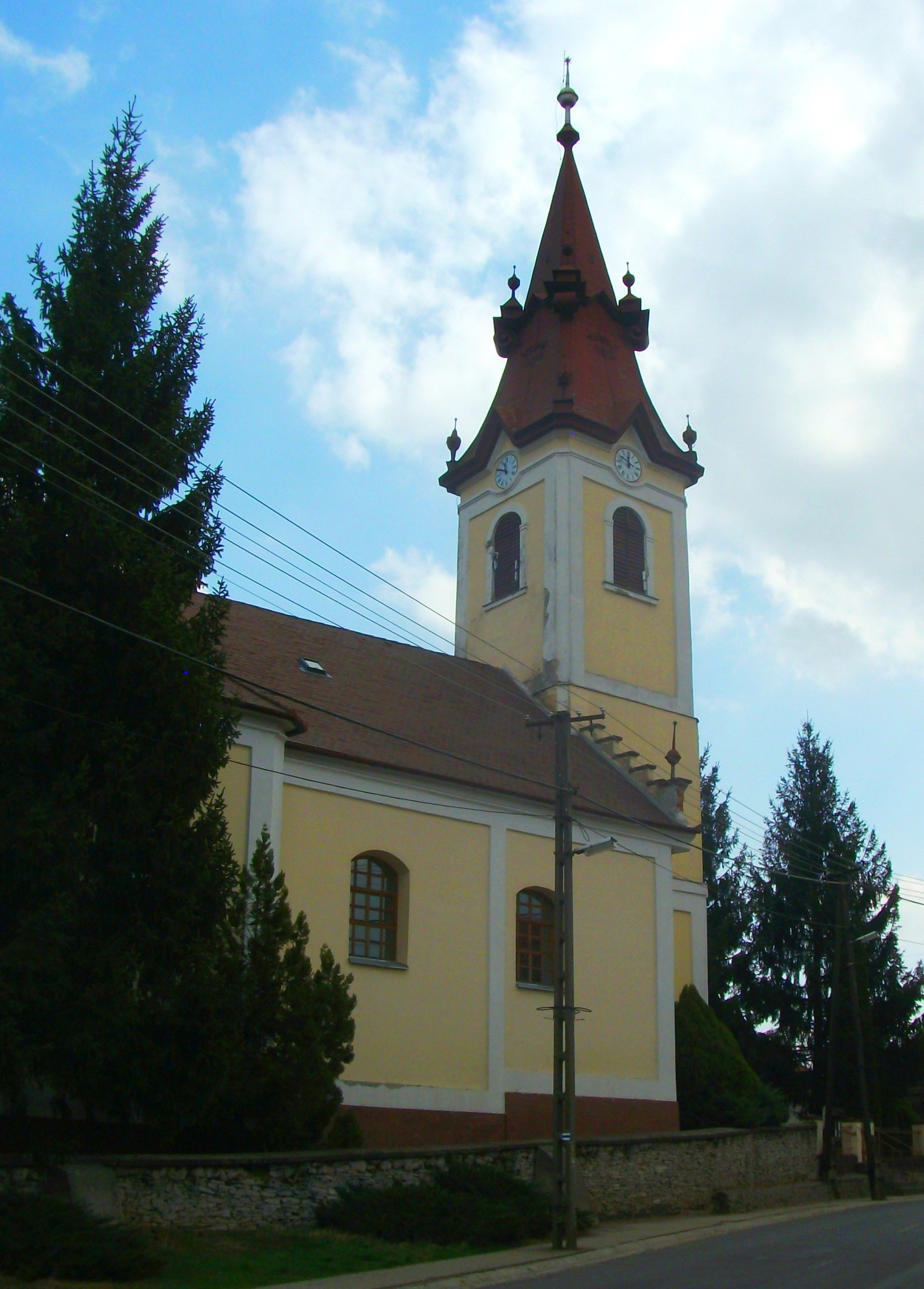 Reformed Church (Cigánd, Hungary) - west side